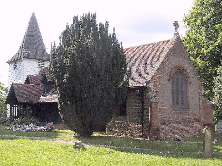 Shot of Greensted Church from the South-East corner. From here the different eras of construction and restoration are visible.